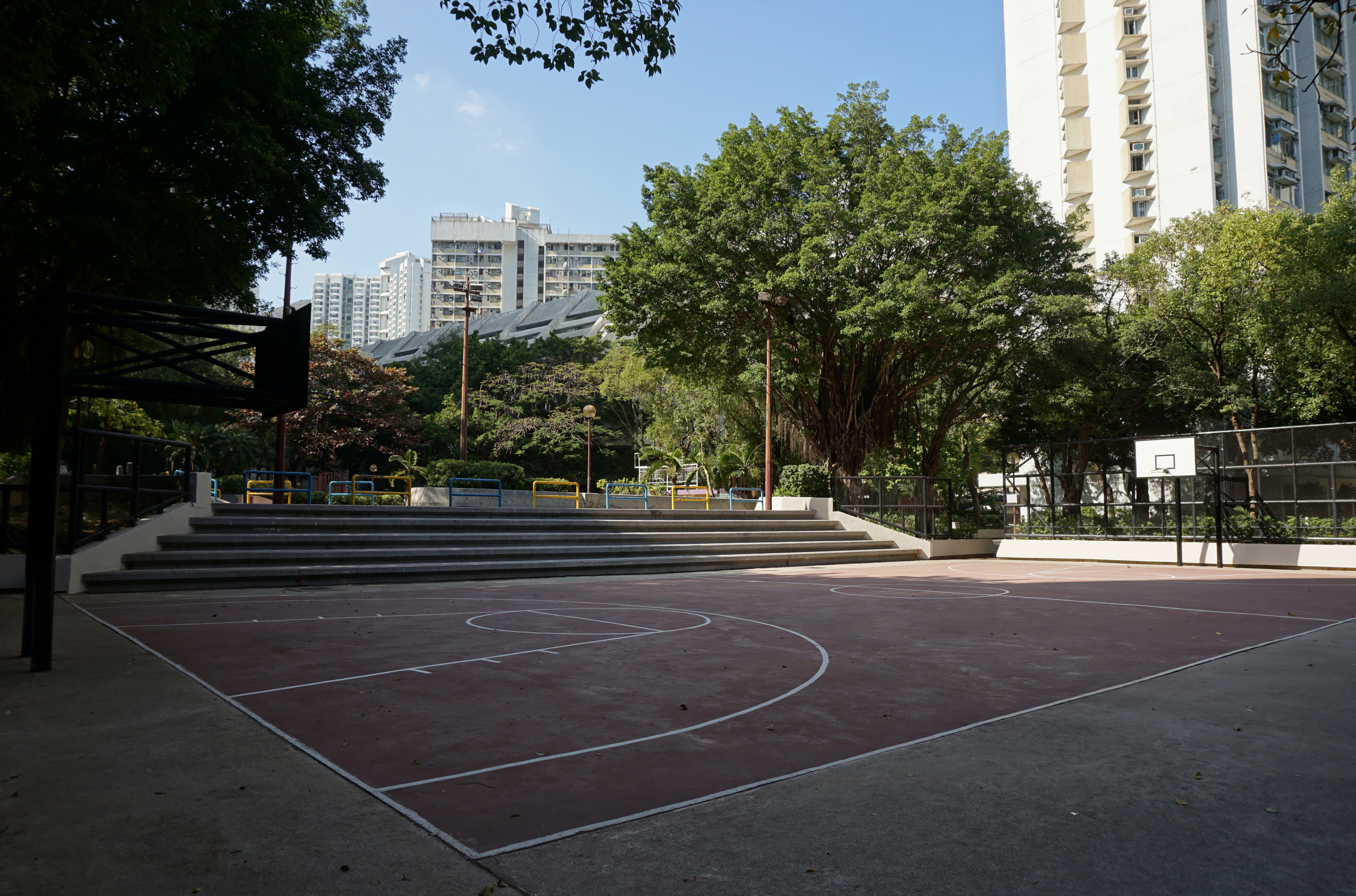 Tin King Estate in Tuen Mun, Hong Kong.